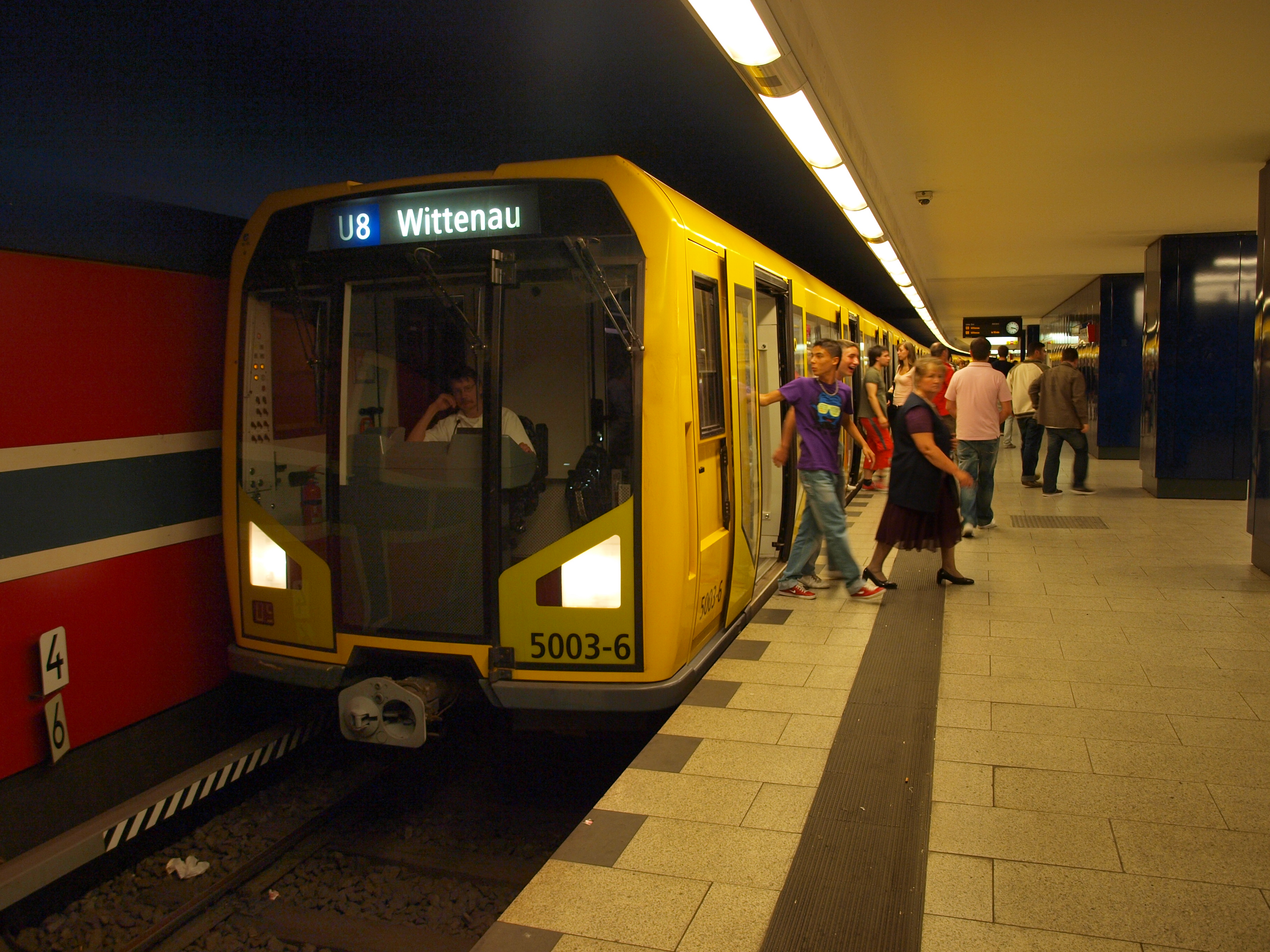 Berlin U-Bahn: H-type train on U8 line (direction Wittenau) on Osloer Straße station.